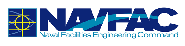 Naval Facilities Engineering Command - logo (large).